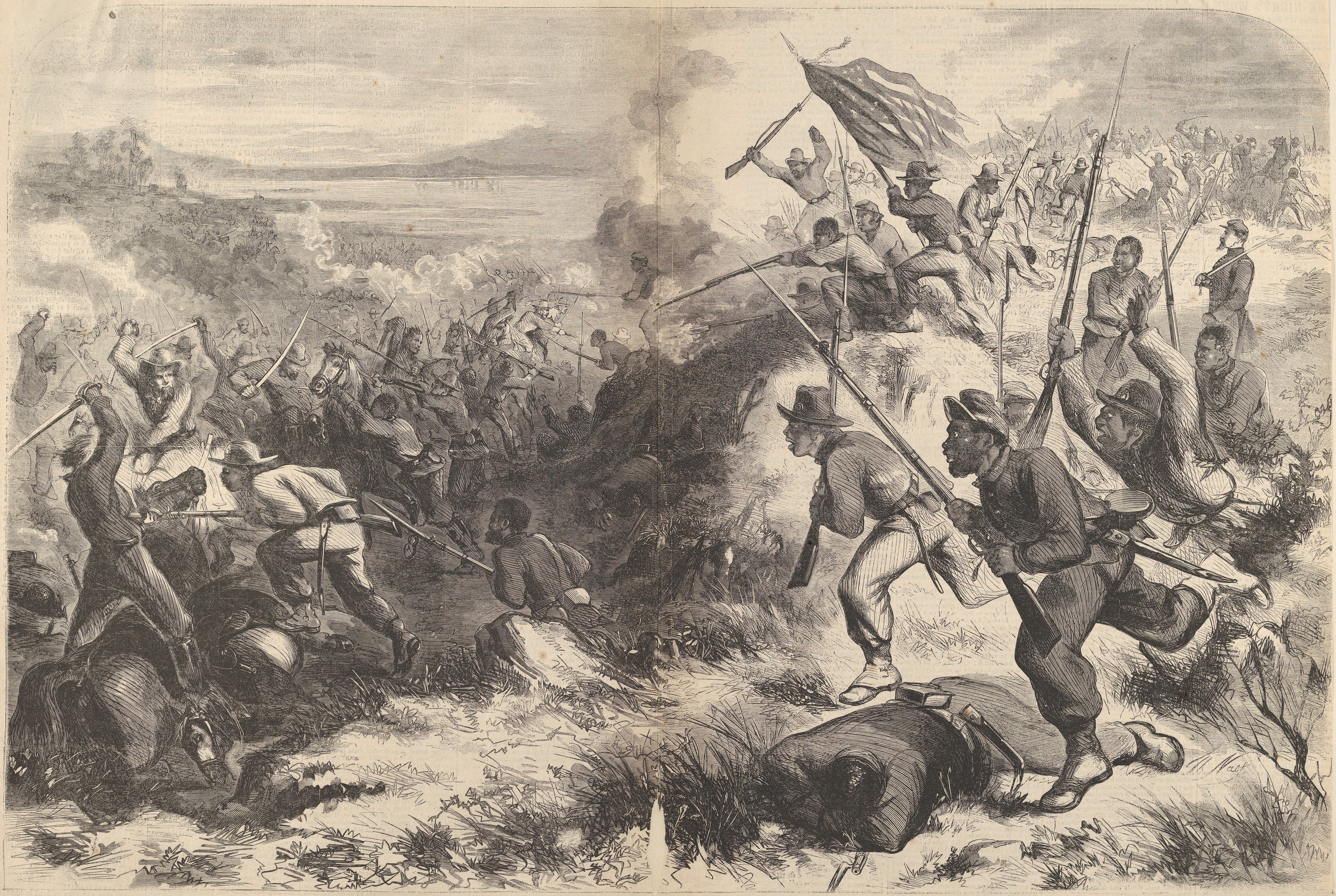 A woodcut depicting the American Civil War Battle of Island Mound. The image was originally published by Harpers Weekly magazine on March 14, 1863. Other information In addition to its use on the linked website, the image is also maintained by the Wilson's Creek National Battlefield library, an agency managed by the United States government. This further assures it's "free use" public domain status.